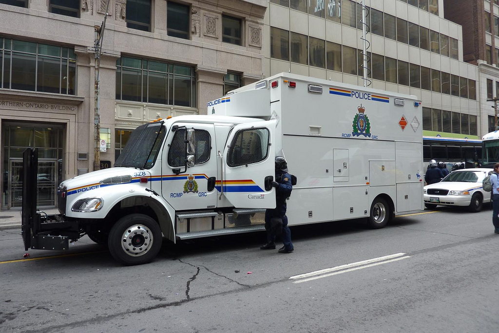 A RCMP truck used at the G20 summit in Toronto, Ontario